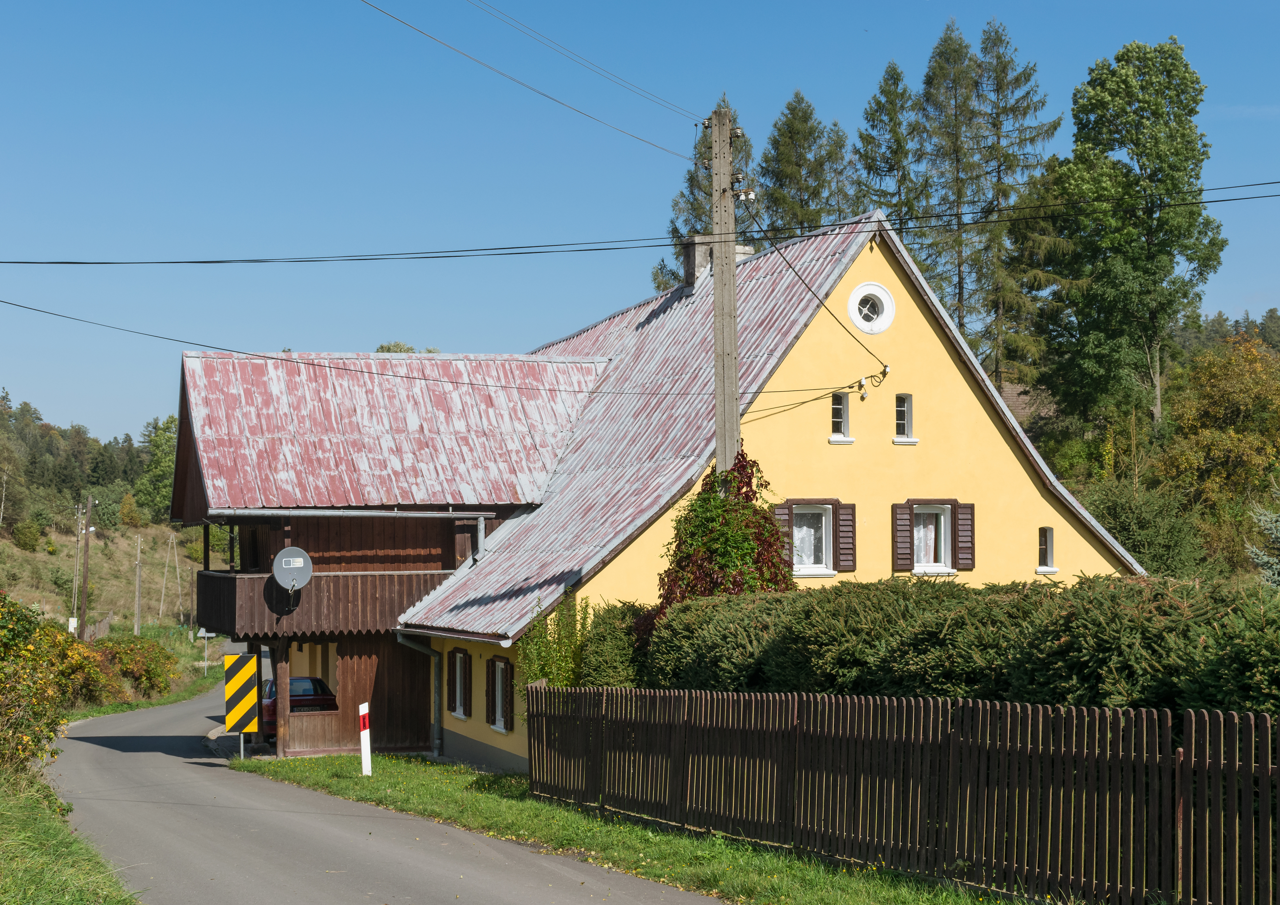 House No. 13 in Wyszki